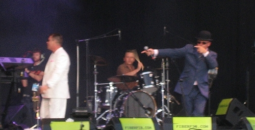 Madness performing live.